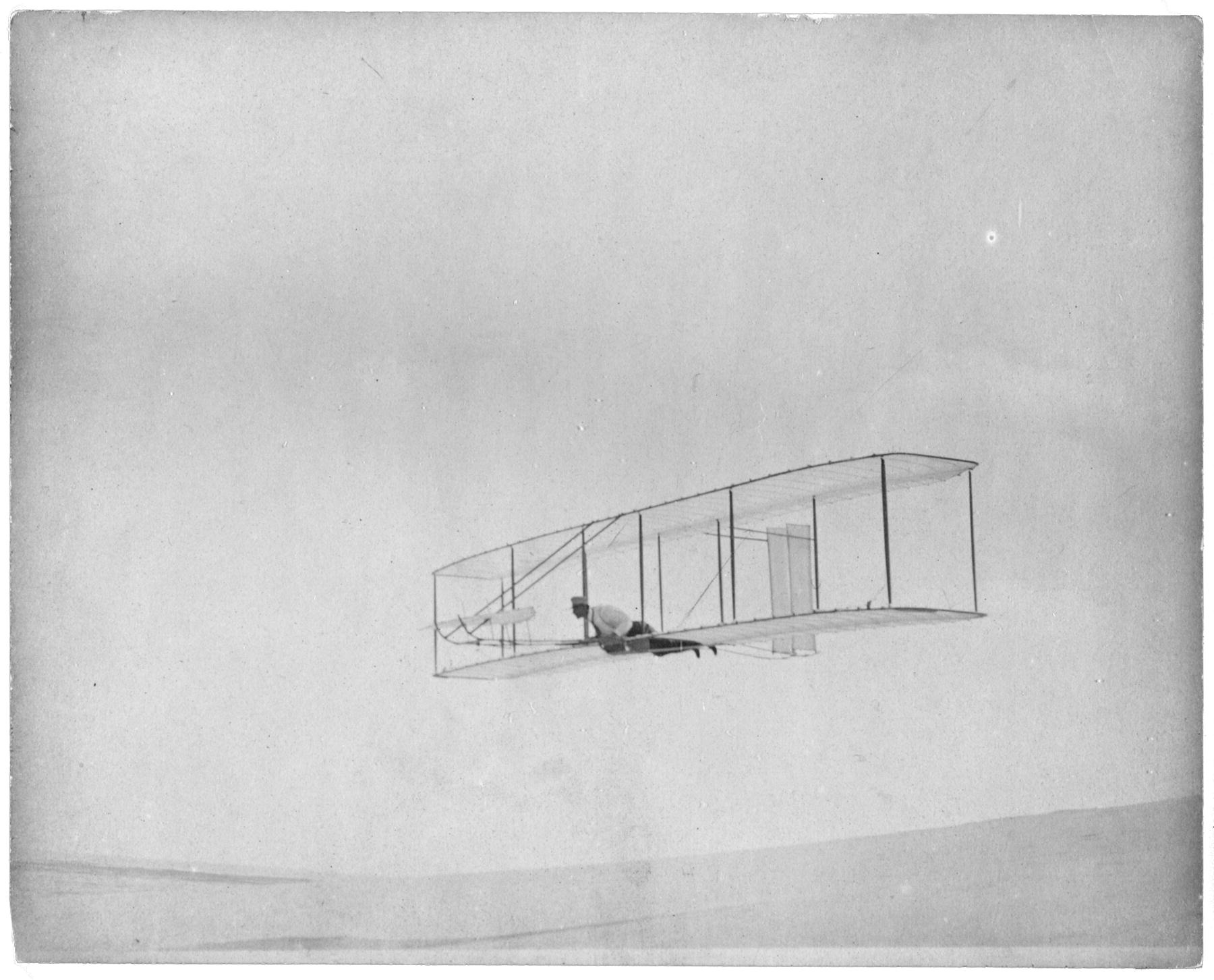 The 1902 Wright Glider on one of its more than 700 flights. Taken from